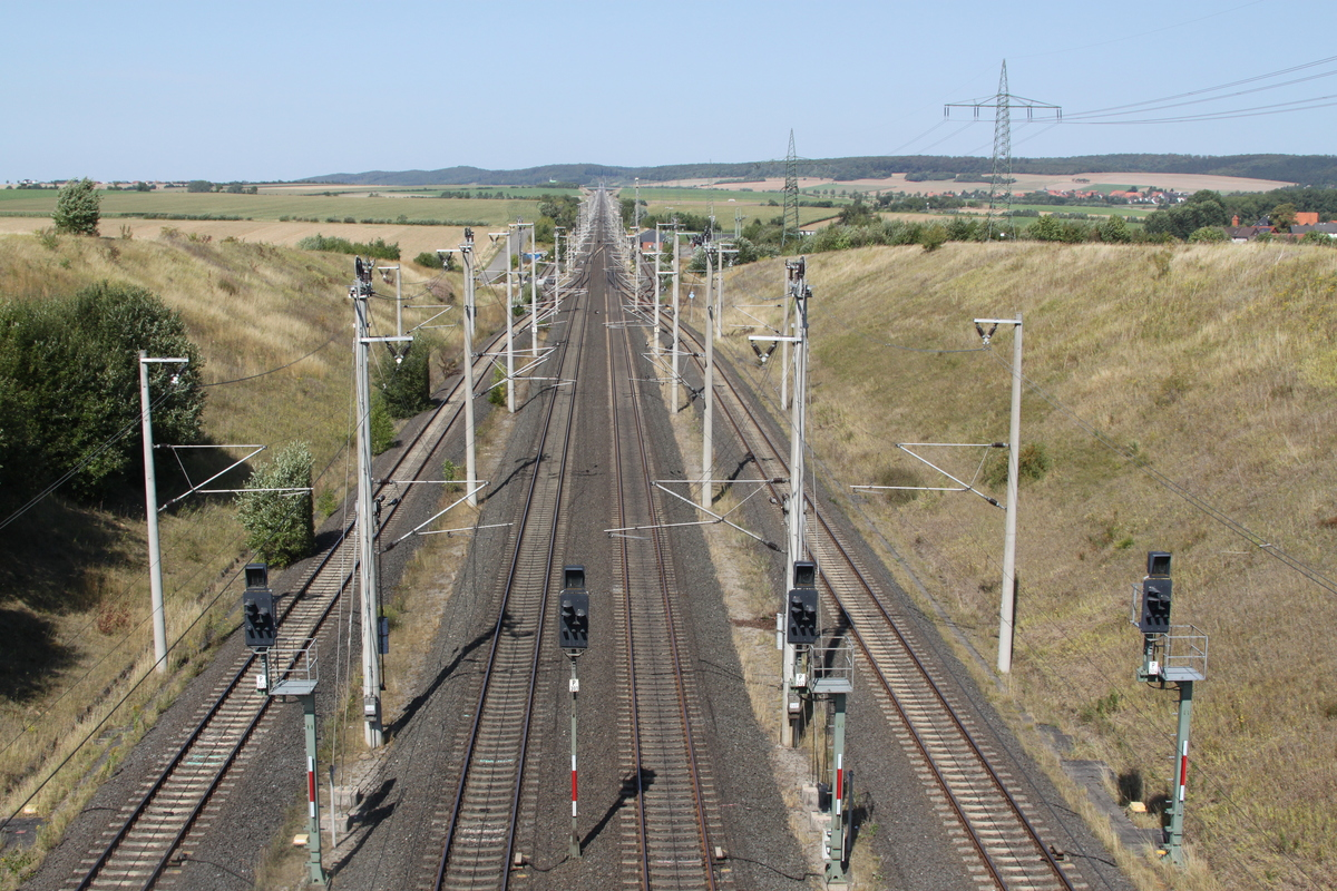 A look on the northern part of Almstedt station of the Hannover-Wurzburg high-speed railway line, where freight trains were supposed to be overtaken by high-speed trains.